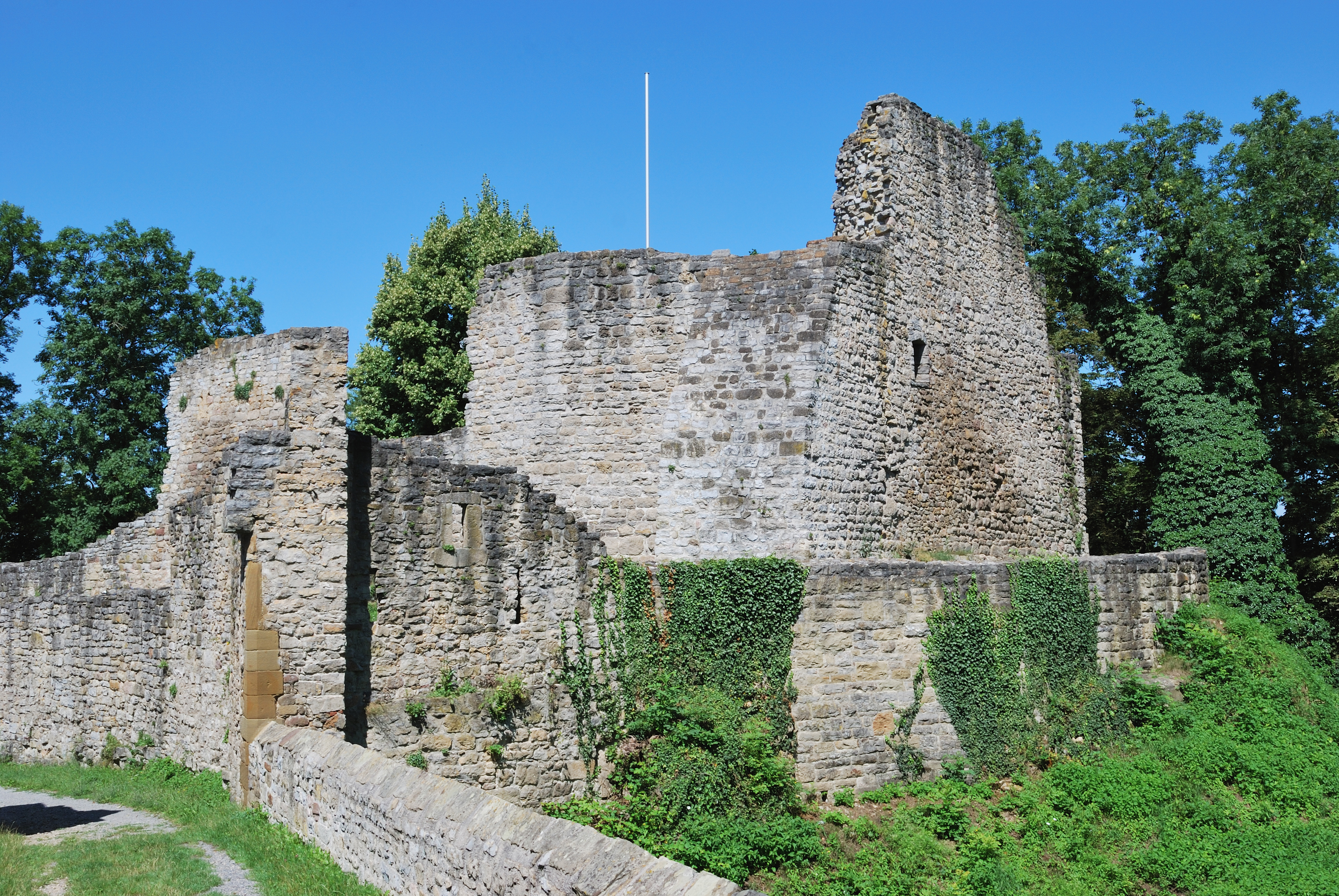 Ruin of the Nippenburg near Schwieberdingen in Southern Germany. View from the bridge on the east side.